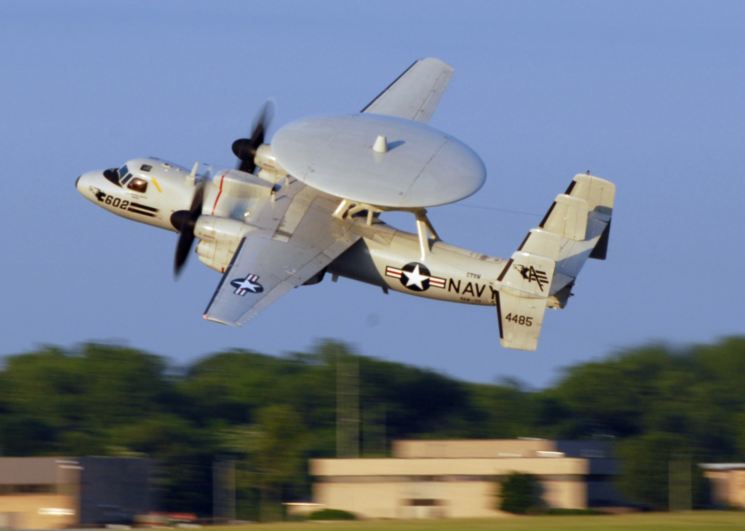 A U.S. Navy Grumman E-2C Hawkeye (BuNo 164485), assigned to Airborne Early Warning Squadron VAW-77 Nightwolves, takes off from Joint Base Andrews Naval Air Facility, Washington, D.C (USA) on 16 May 2010. This was the first Joint Service Open House conducted by "Team Andrews" members at the newly minted Joint Base Andrews.